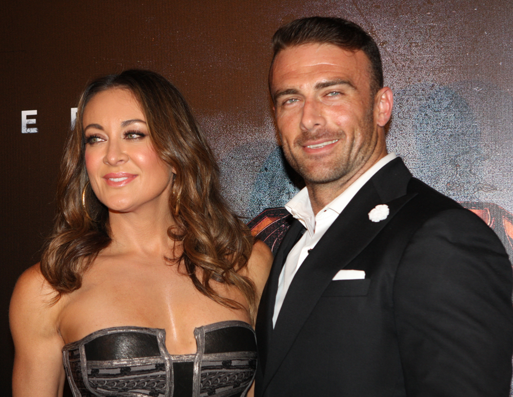 Man Of Steel red carpet movie premiere, Sydney